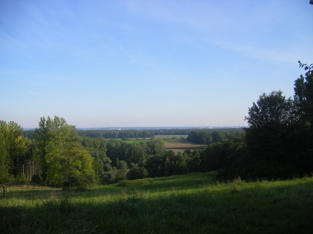 Landscape between Altisheim (Kaisheim municipality) and Lechsend (Marxheim municipality)